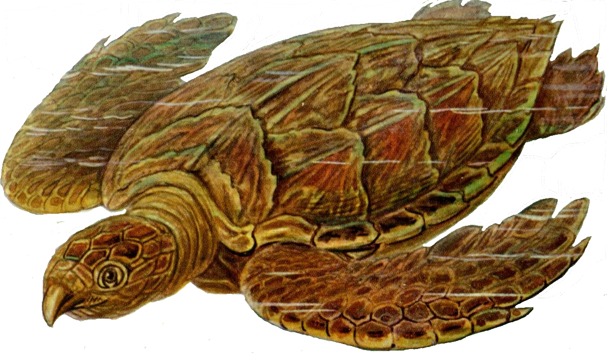 Eretmochelys imbricata by Haeckel